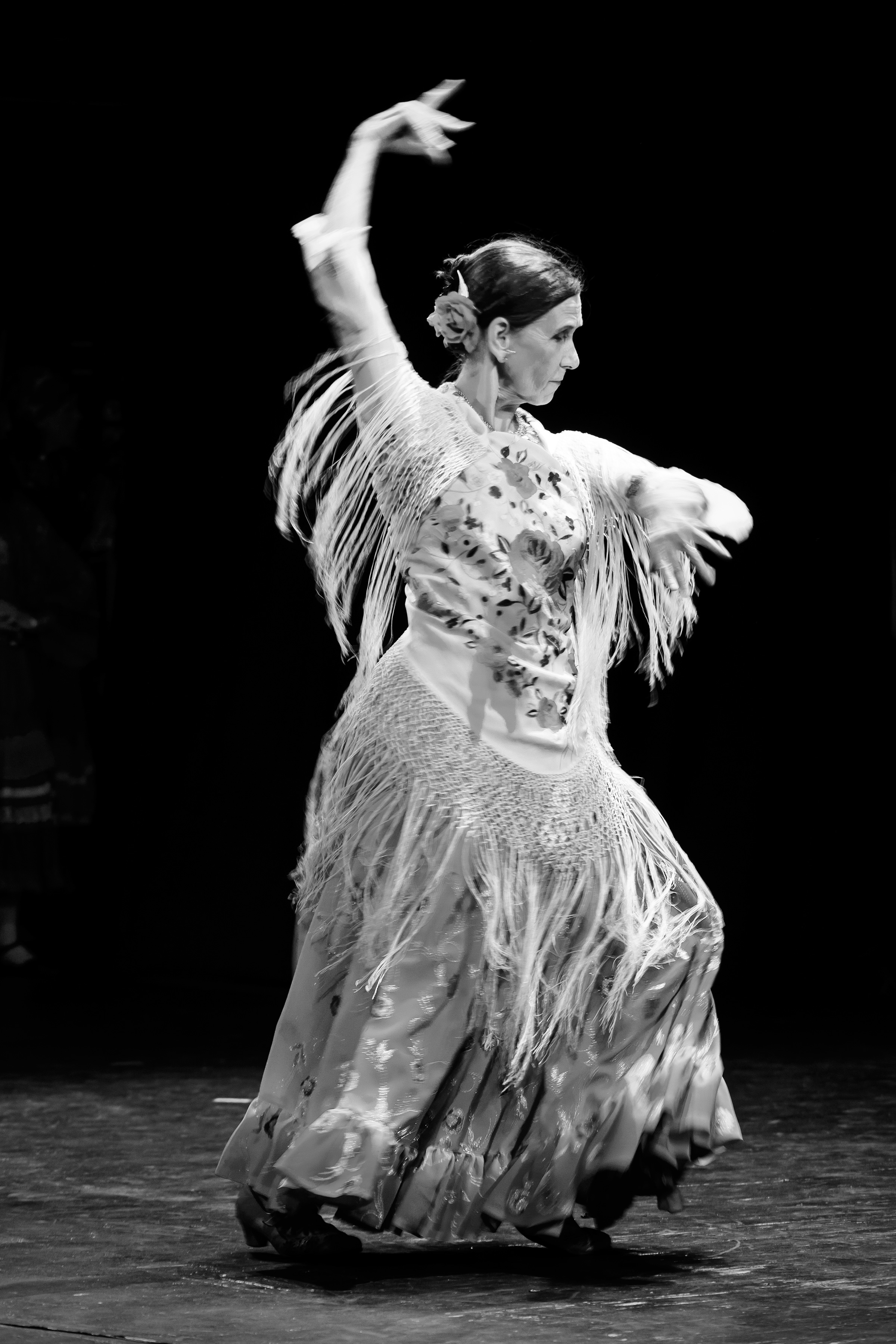 Lehti Kostabi on gipsy dance festival "Bah(t) amari!" in Tartu, 19.07.2019